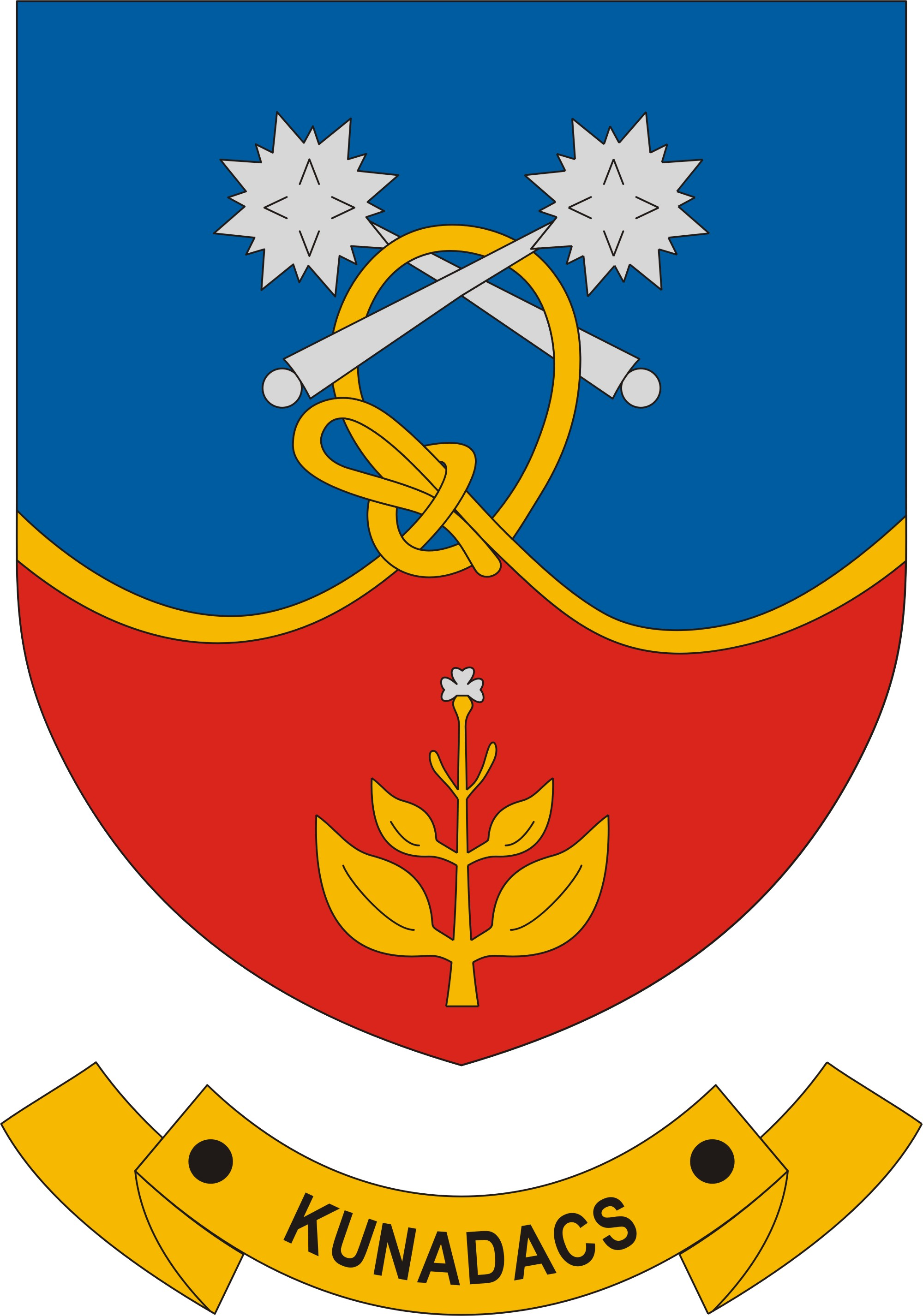 Coat of arms of Kunadacs, Hungary